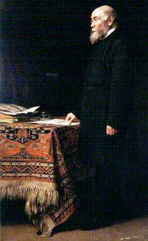 George Thompson, jnr. (1804–1895), the son of Andrew Thompson, of the H.E.I.C.S. (Honorable East India Company Service). In 1825 he commenced business in Aberdeen as a ship and insurance broker, and was the originator of the well-known “Aberdeen White Line,” of which his son-in-law, Sir William Henderson, was afterwards the head. A portrait of Mr Thompson, by Sir George Reid, R.S.A., in the Art Gallery of Aberdeen.